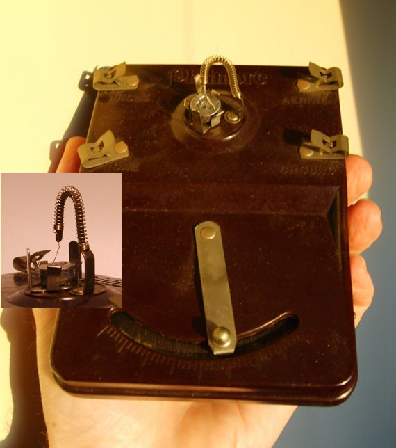 An inexpensive crystal radio receiver. The device in the inset is the cat's whisker detector.